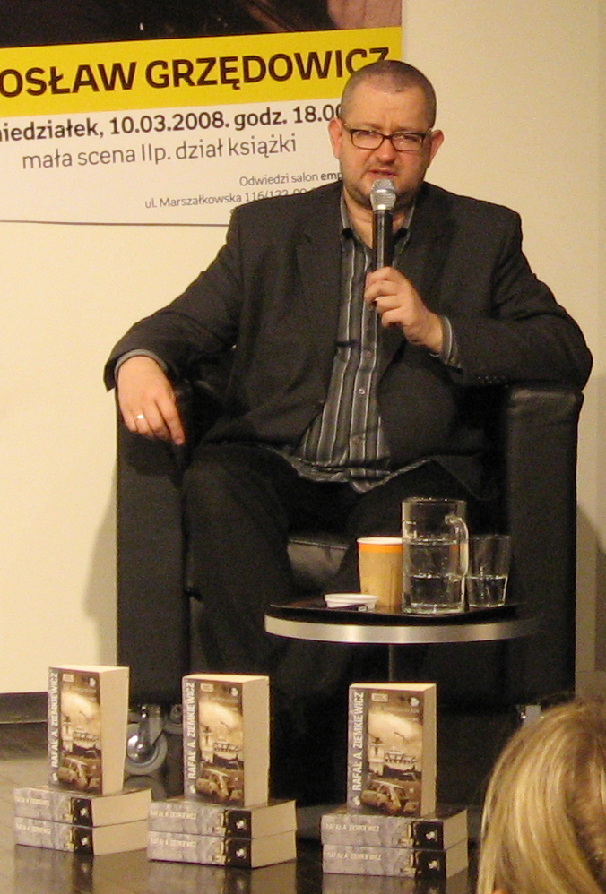 Rafał A. Ziemkiewicz